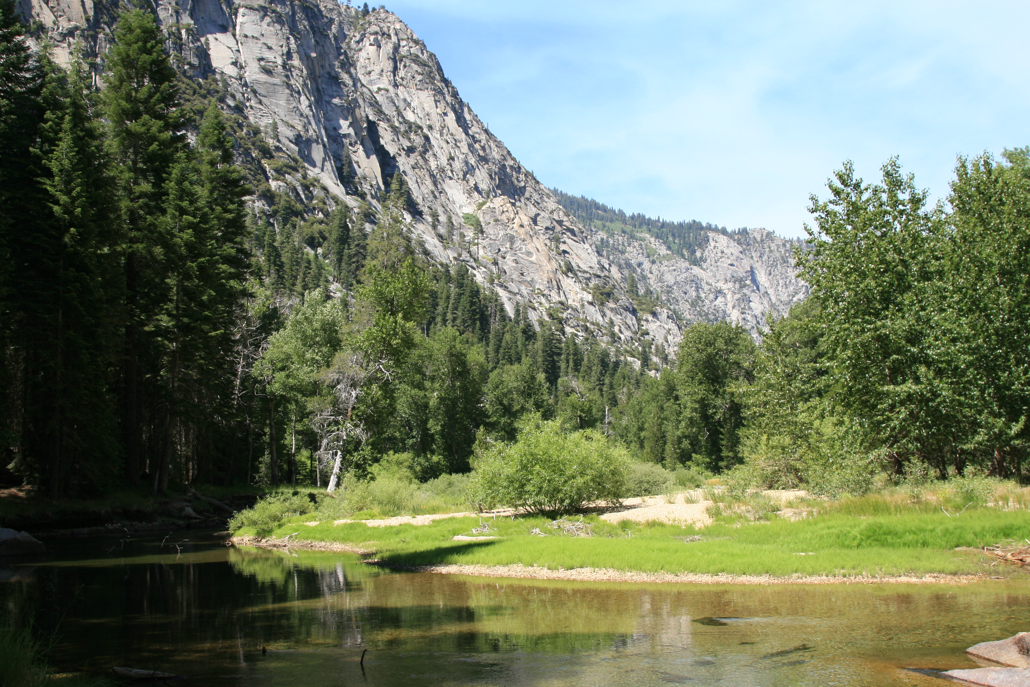 Paradise Valley in Kings Canyon National Park.